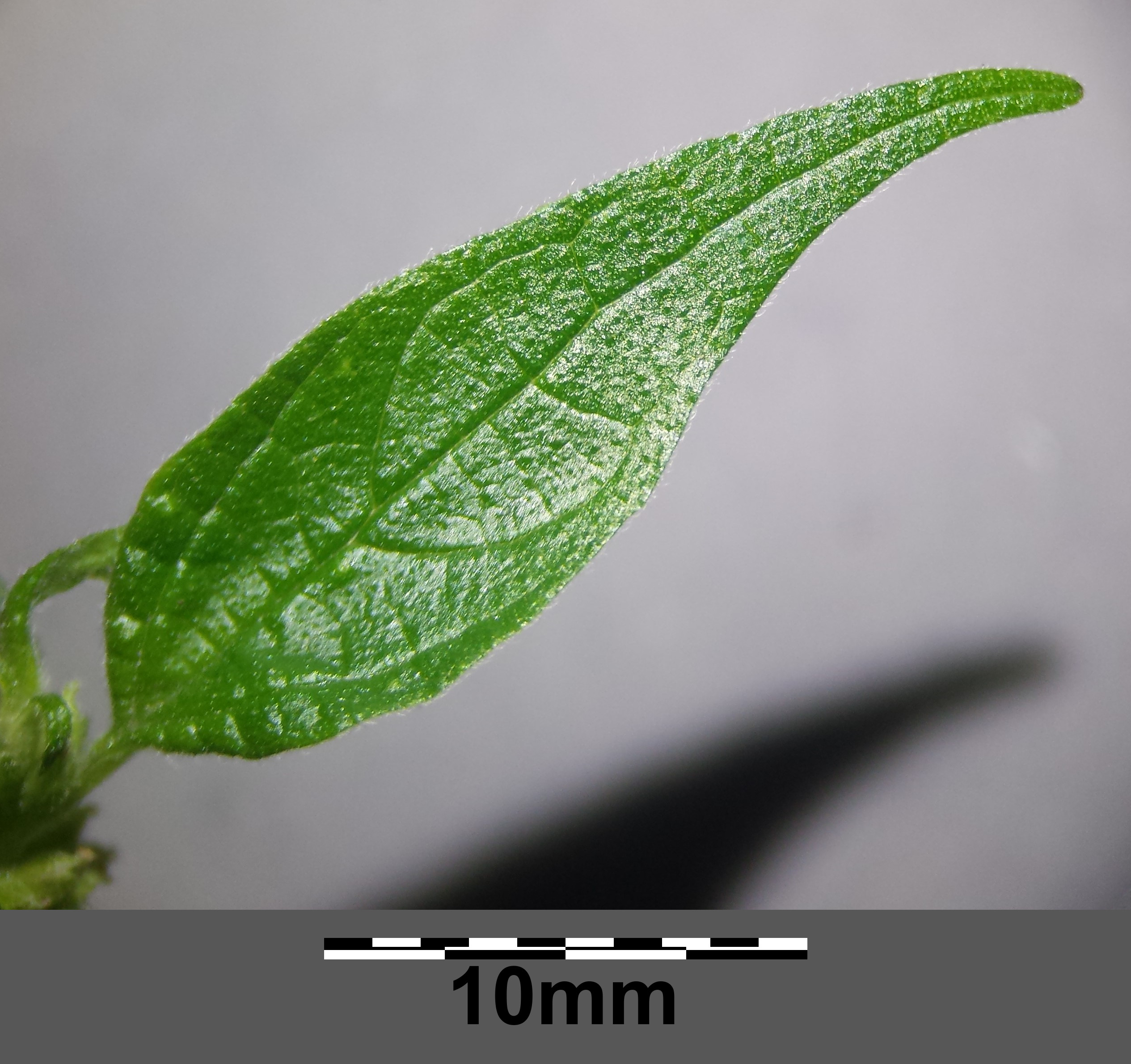 Leaf Taxonym: Parietaria officinalis ss Fischer et al. EfÖLS 2008 ISBN 978-3-85474-187-9 Location: Wasserpark, Vienna-Floridsdorf - ca. 160 m a.s.l. Habitat: border of a shrubbery